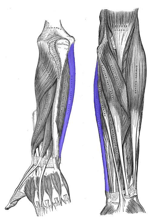 Diagram of FCU.